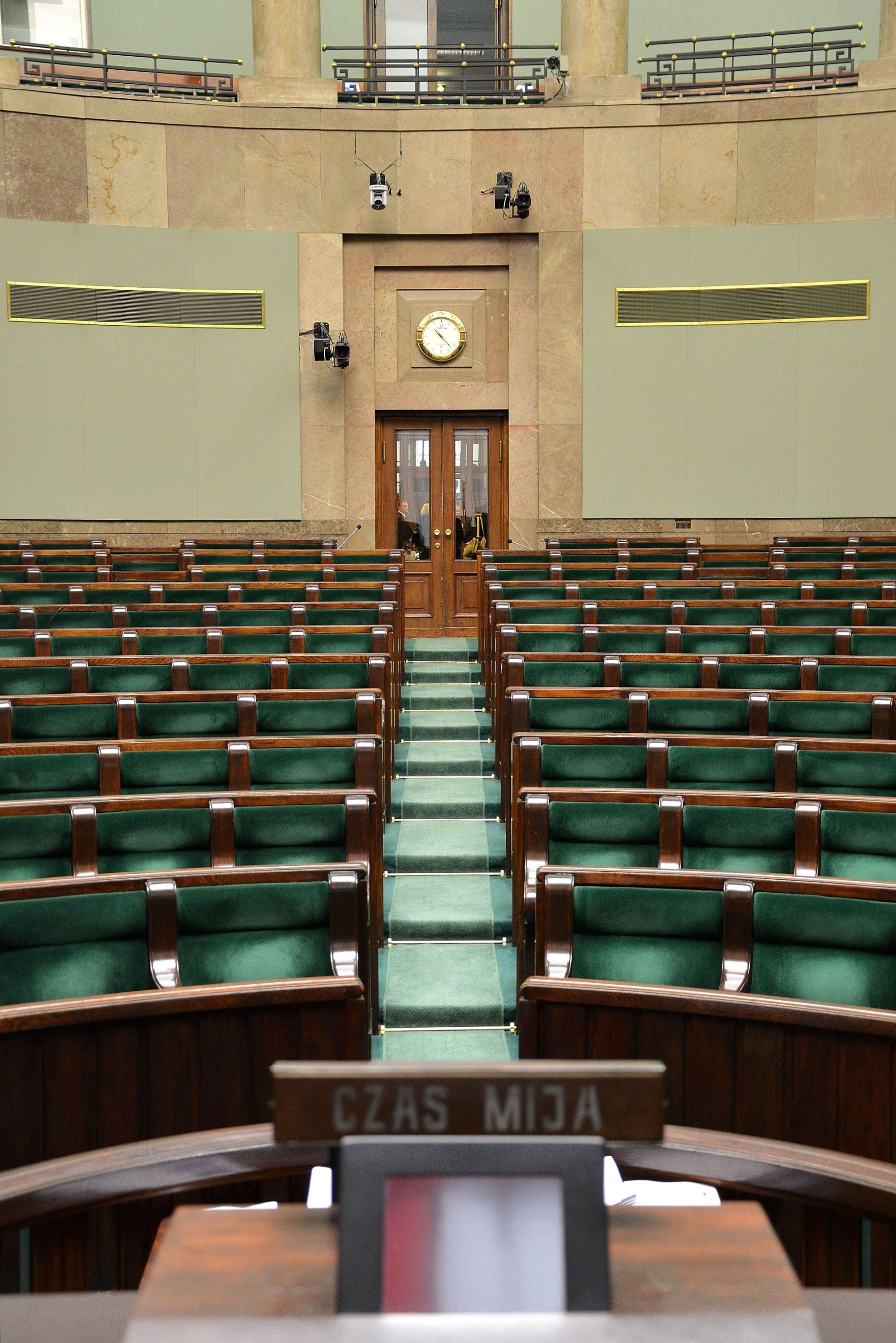 Sejm Plenary Hall viewed from the rostrum